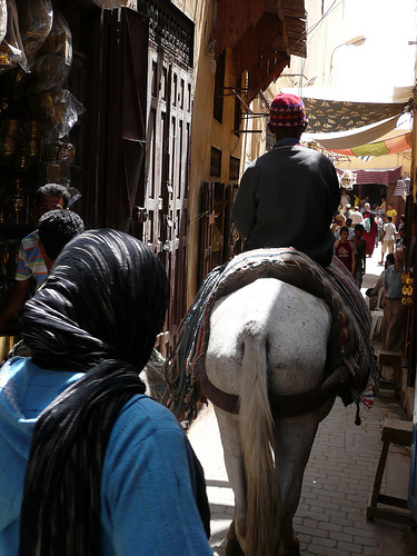 Medina Fez